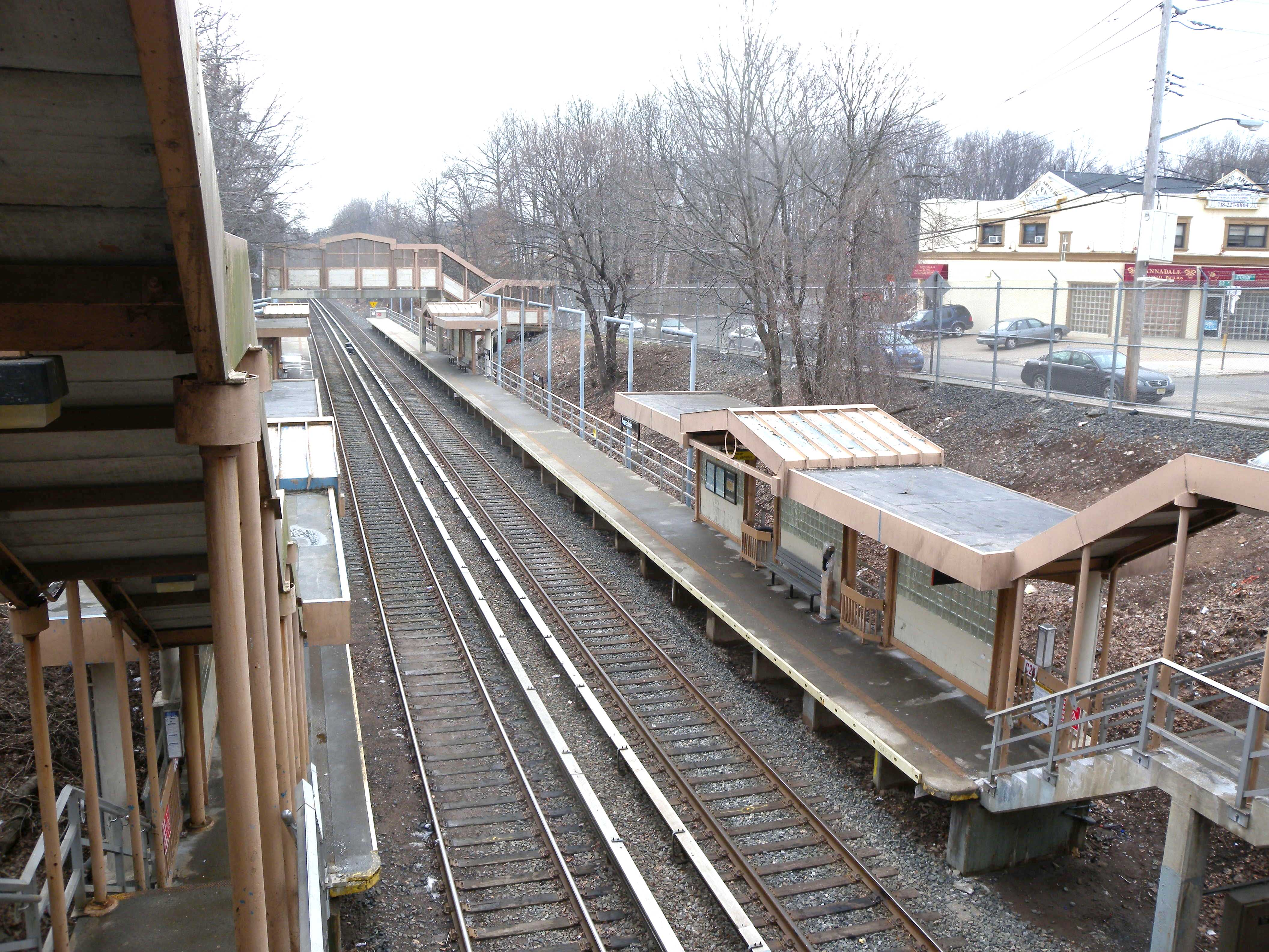 Looking west from Annadale Road into Annadale (Staten Island Railway station) on a cloudy afternoon. EXIF says I'm still half a mile southwest at the phone building.